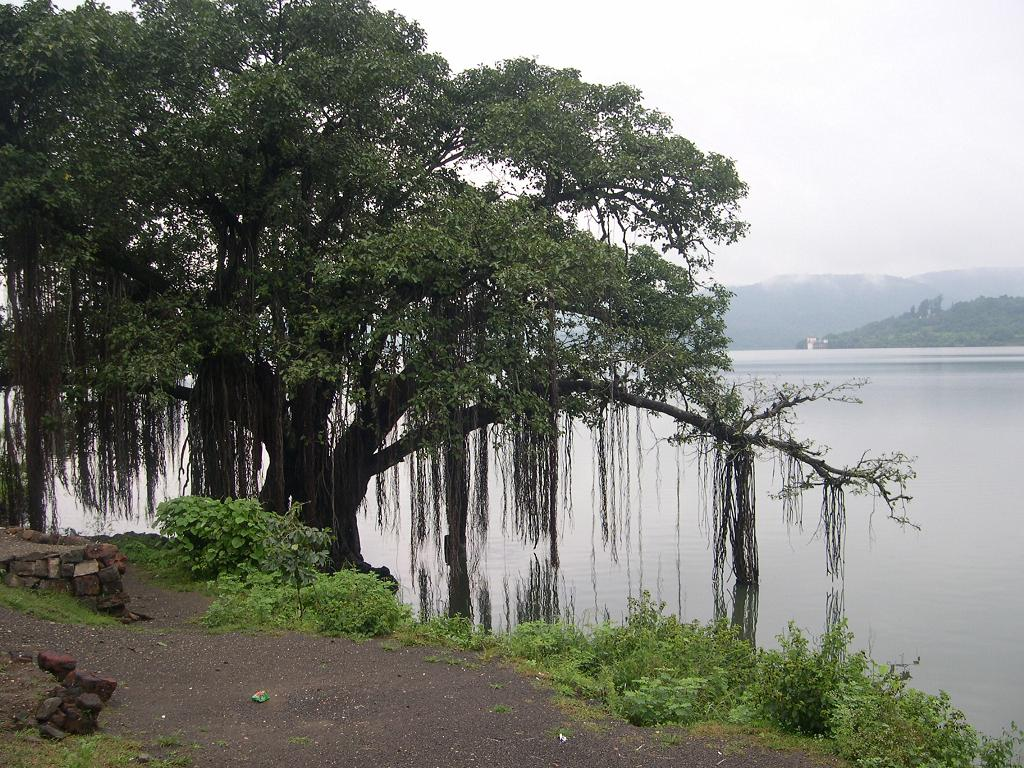 Banyan tree on the banks of Khadakwasla Dam